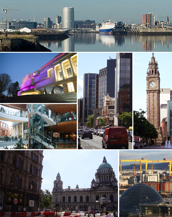 Belfast Collage